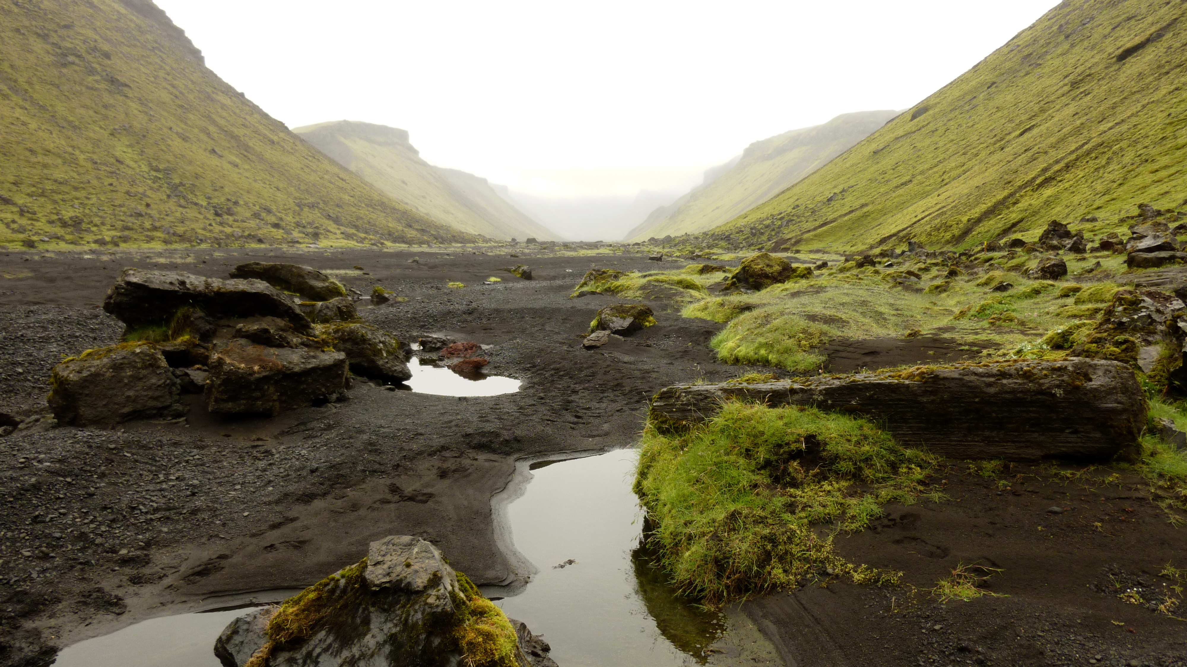 Black sand and bright green moss, at the bottom of Eldgjá.